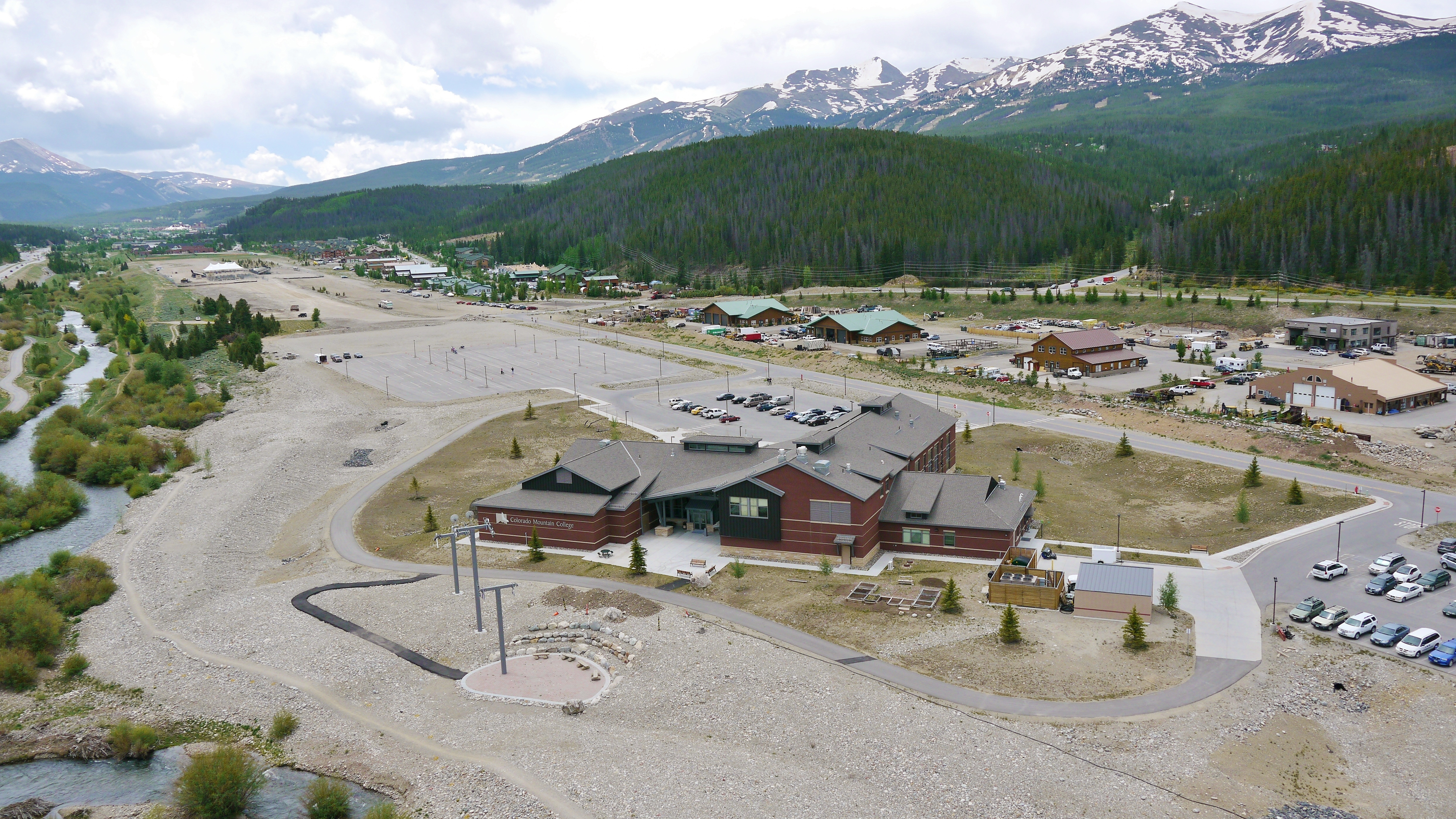 CMC Breckenridge campus aerial image